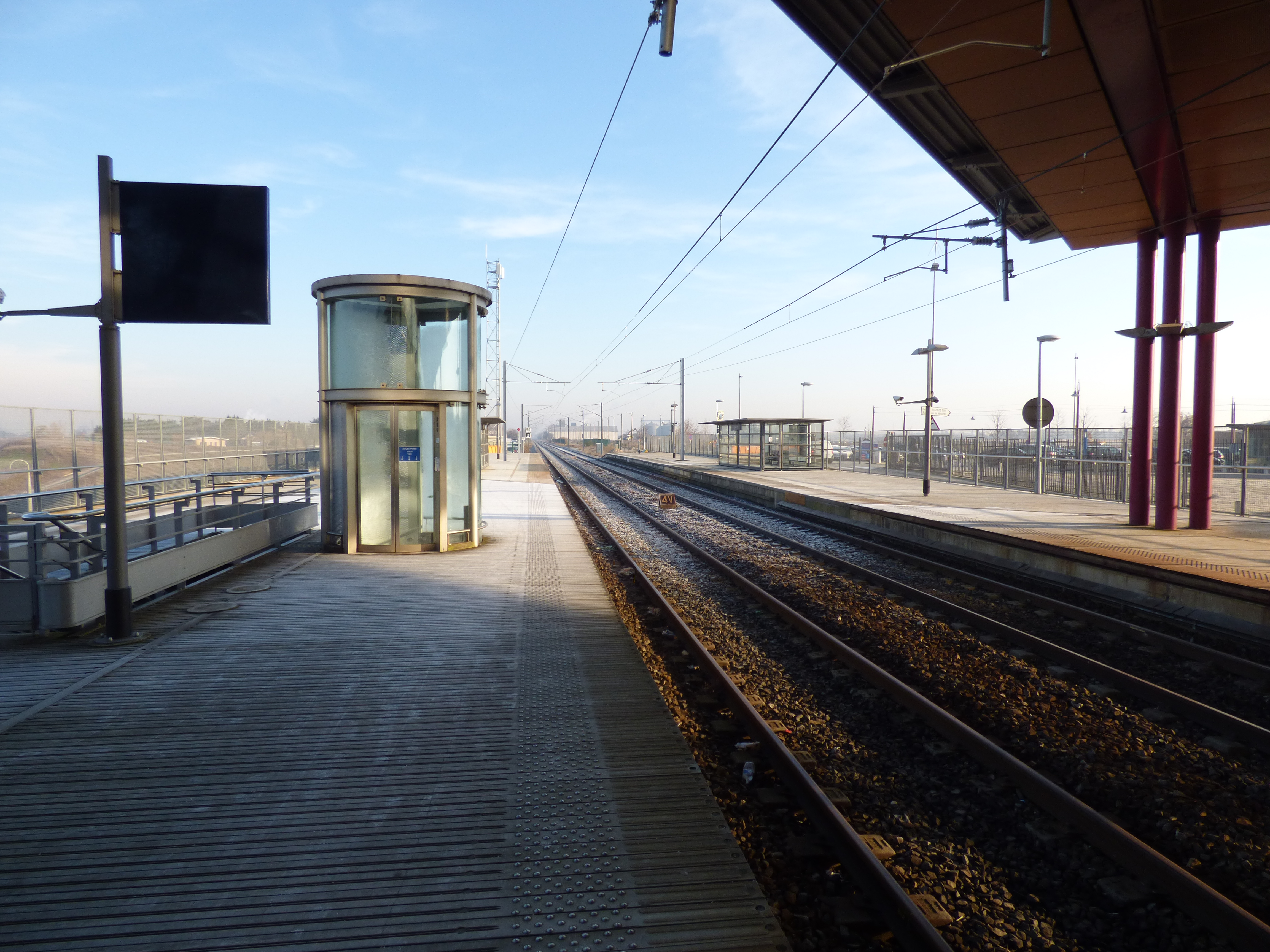 Regional transport tracks (TER) in Valence TGV station